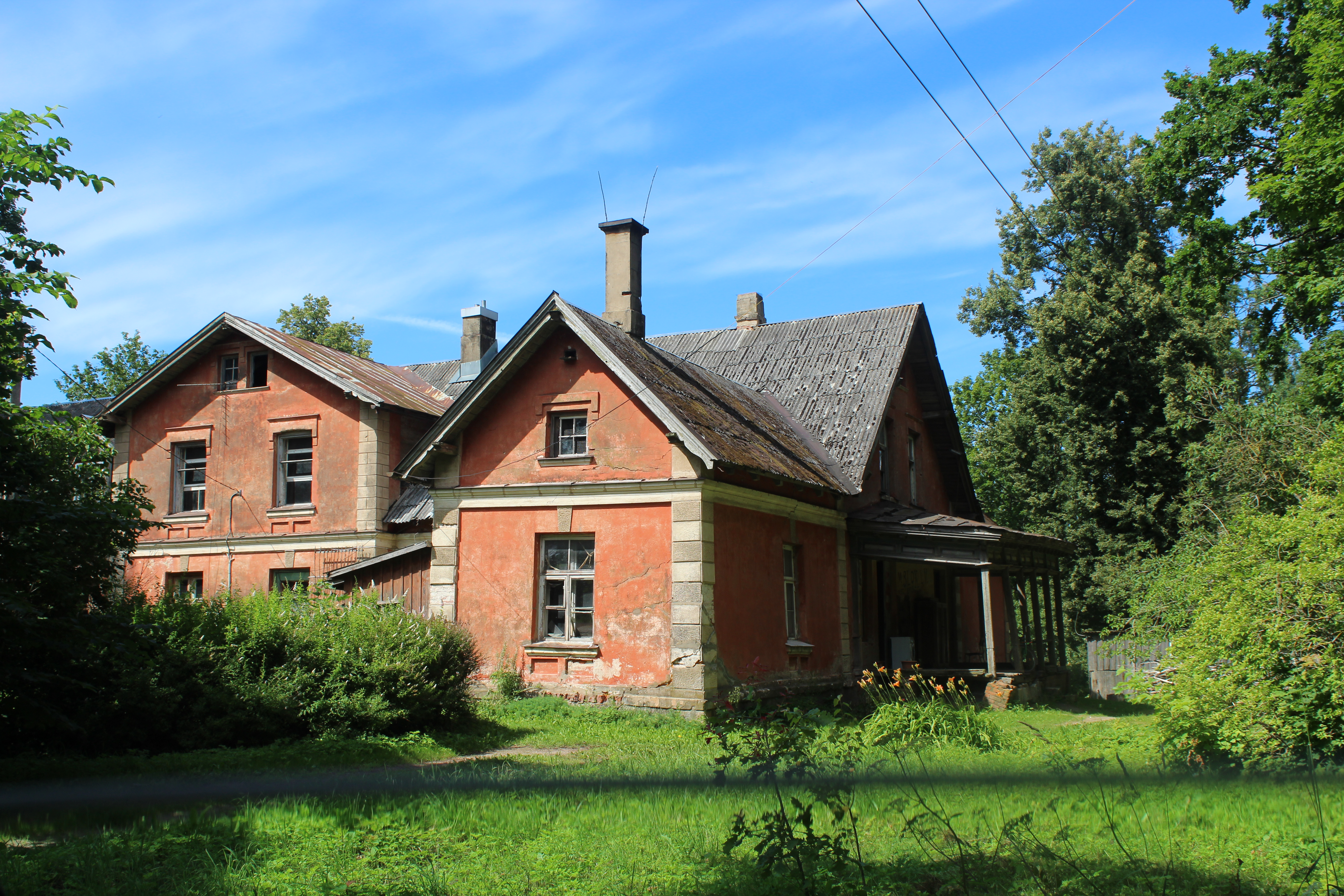 Village Mētagmuiža in Liepupe parish.